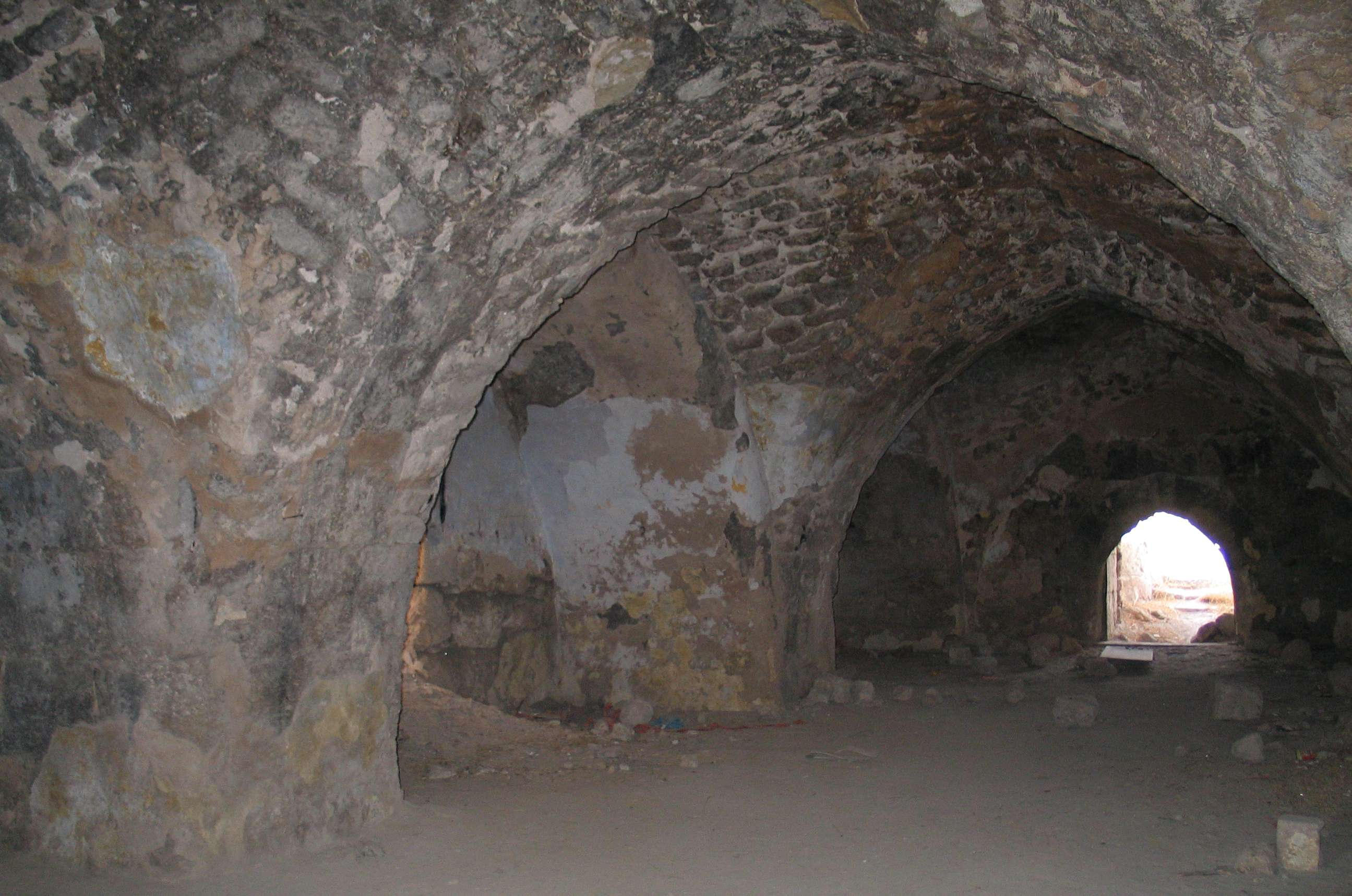 Ruins of the crusader castle at Latrun, Israel.